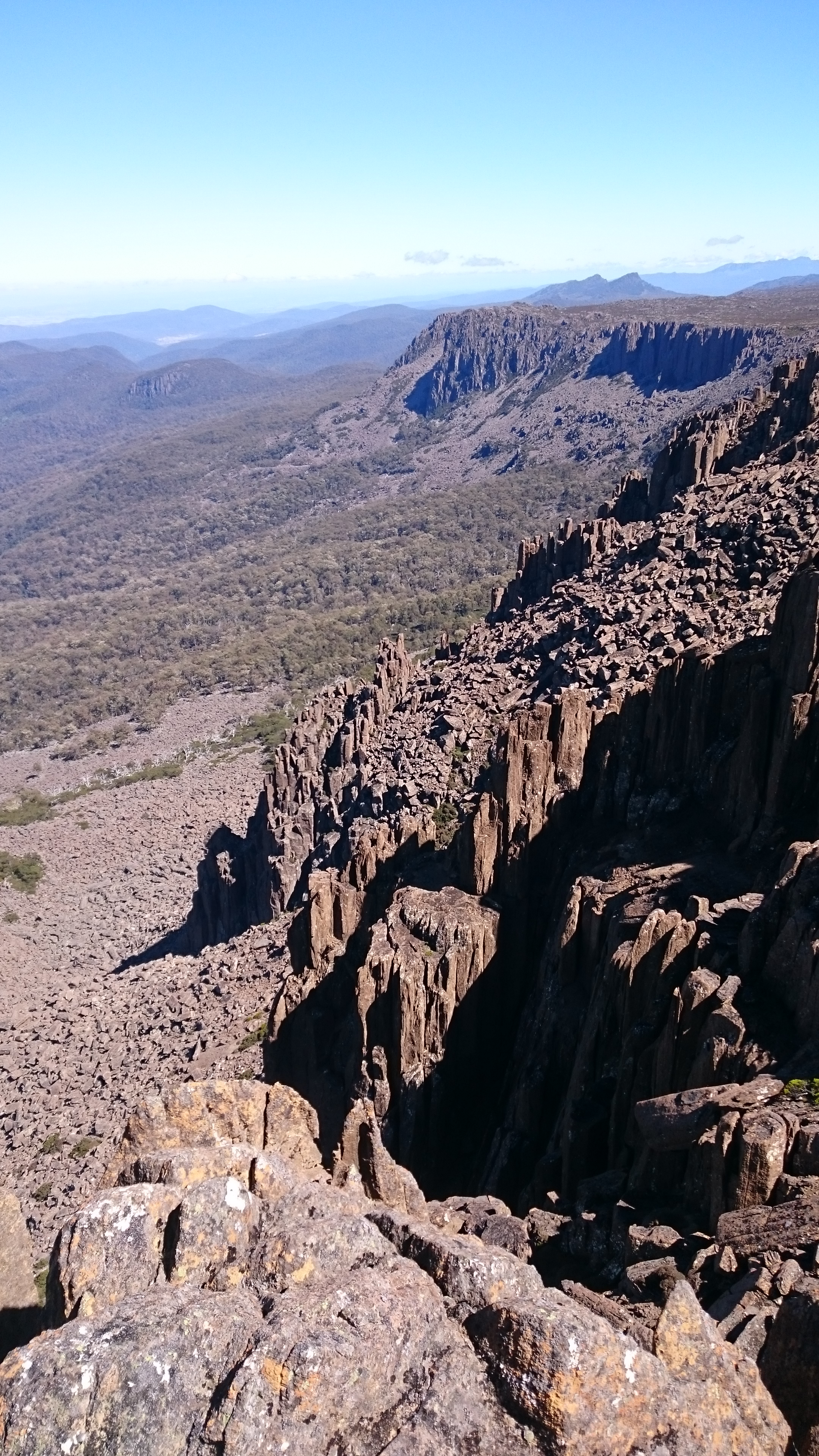 Looking Northwest from Stacks Bluff